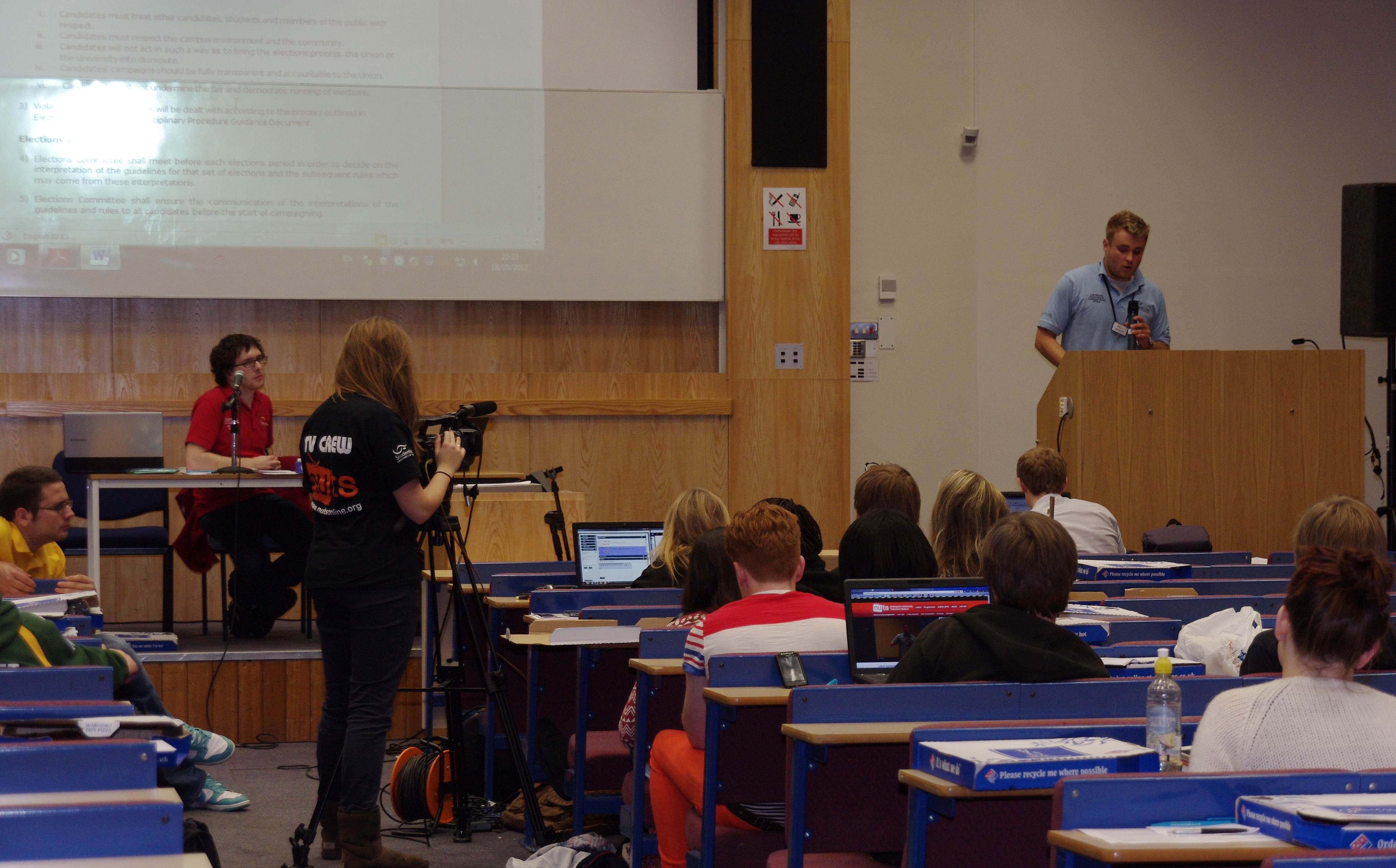 The University of Nottingham Students' Union 411th (1st) Union Council. Democracy & Communications officer Luke Mitchell proposes a motion at the podium.